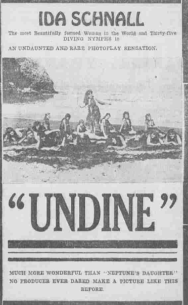 Newspaper ad for the film American fantasy drama film Undine (1916).